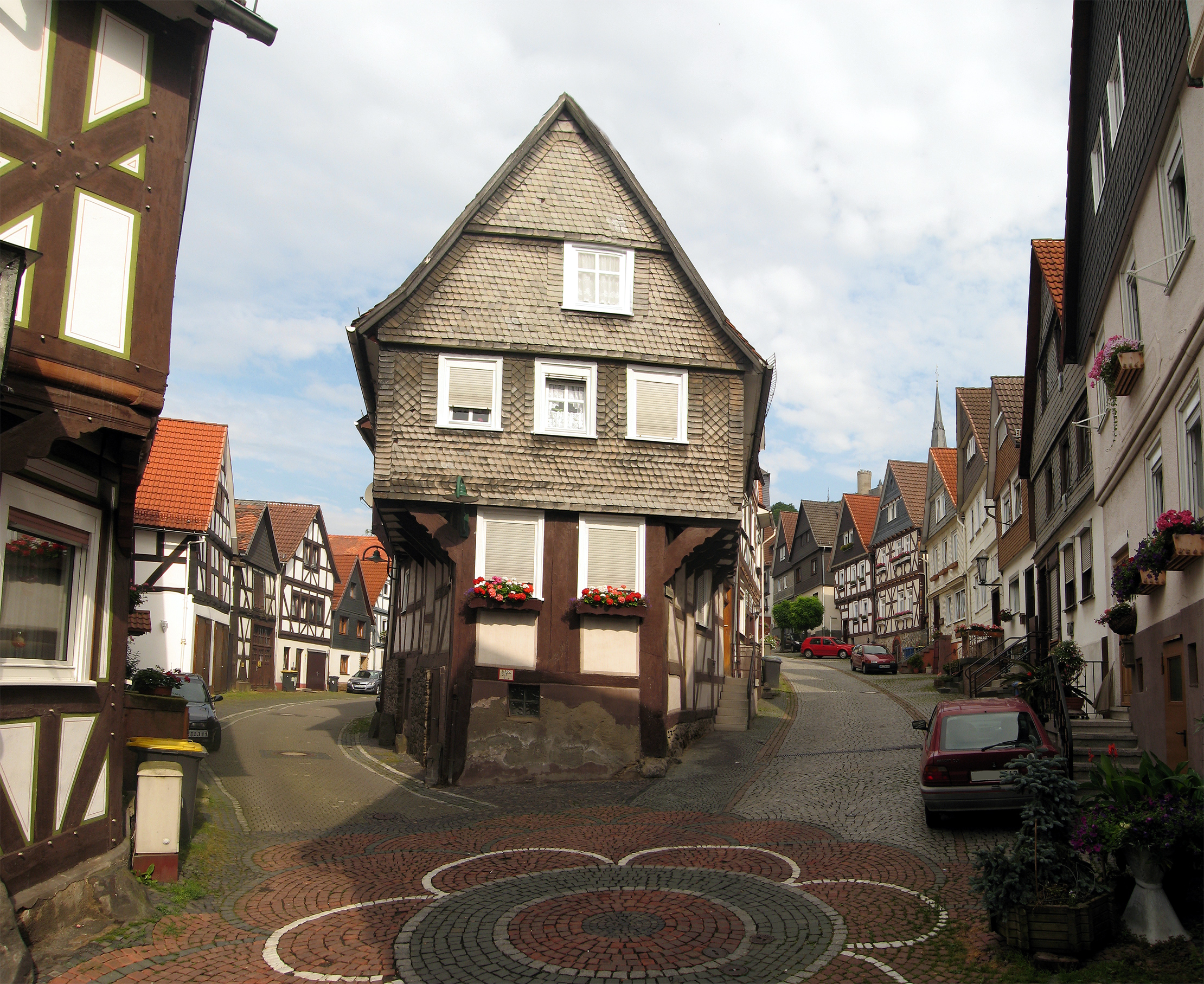 Timberframing at Biedenkopf